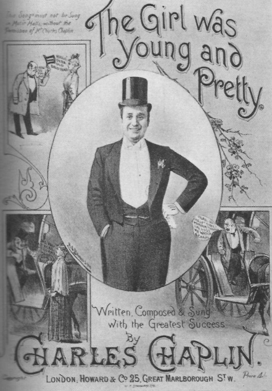 Sheet music cover for 'The Girl Was Young and Pretty', featuring Charles Chaplin, Sr.